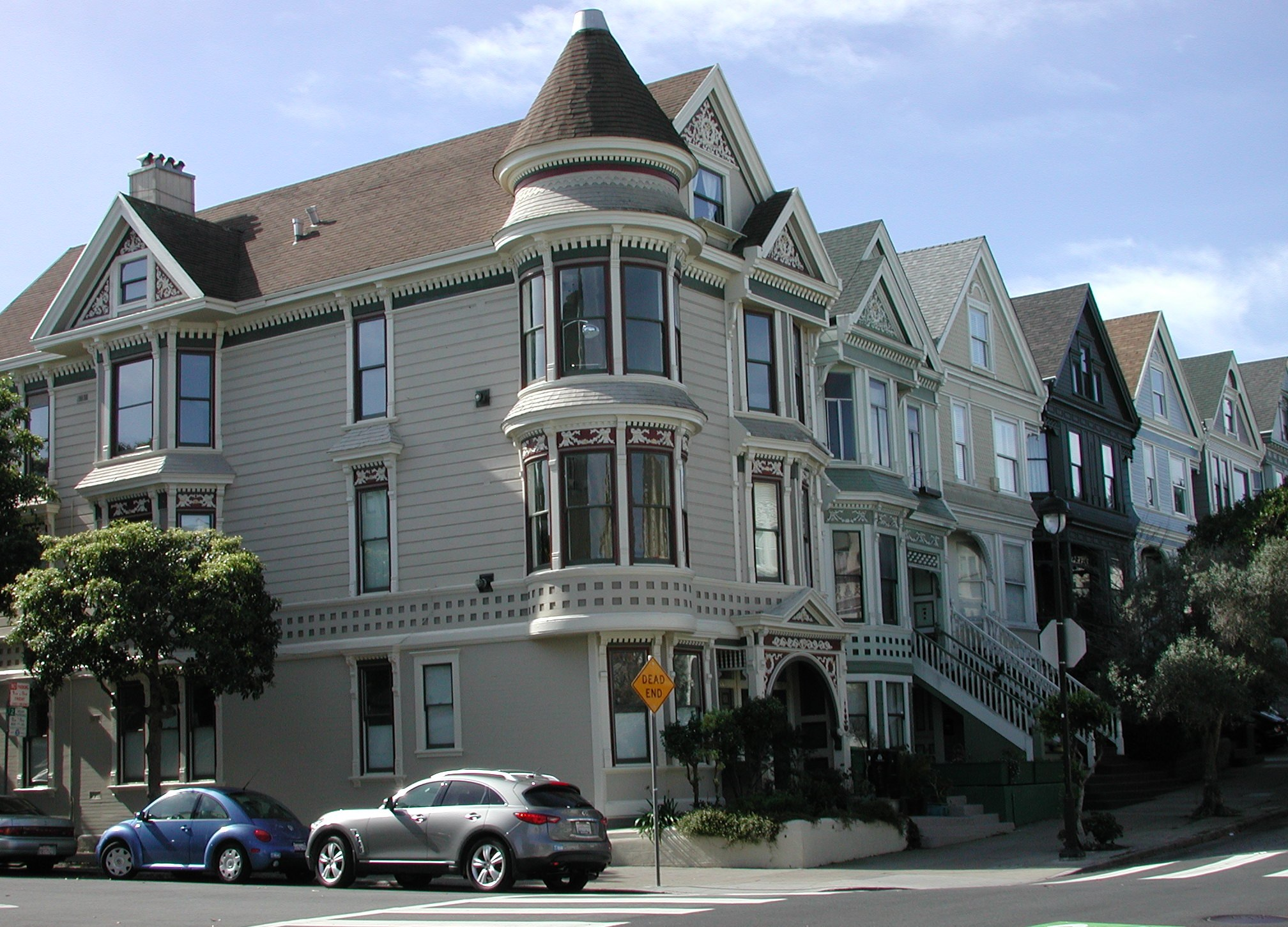 — at Waller and Pierce Street within the Duboce Park Landmark District. A San Francisco Designated Landmarks historic district, in the Duboce Triangle and Lower Haight neighborhoods of San Francisco.